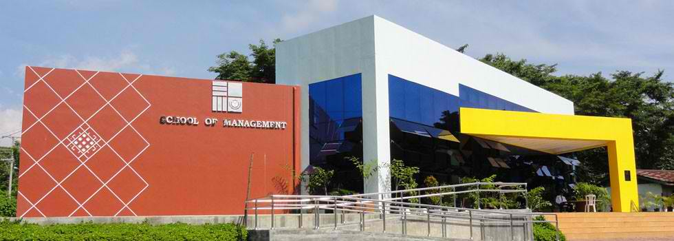 UP Mindanao School of Management Building (Phase 1).